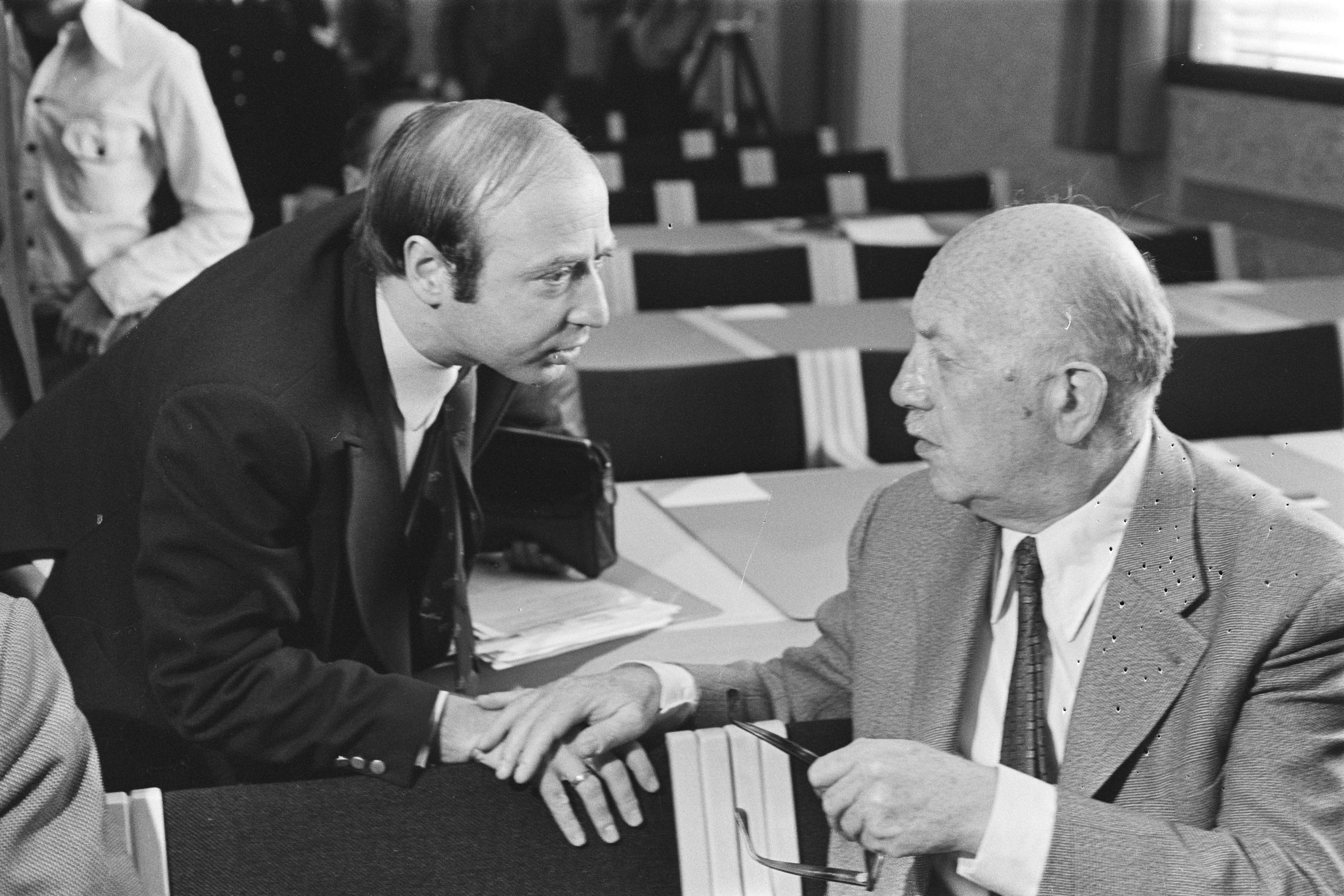 Hans Knoop, dutch journalist, talking to Haviv Kanaan, israeli journalist and witness, court proceeding against Pieter MENTEN in Amsterdam, May 1977